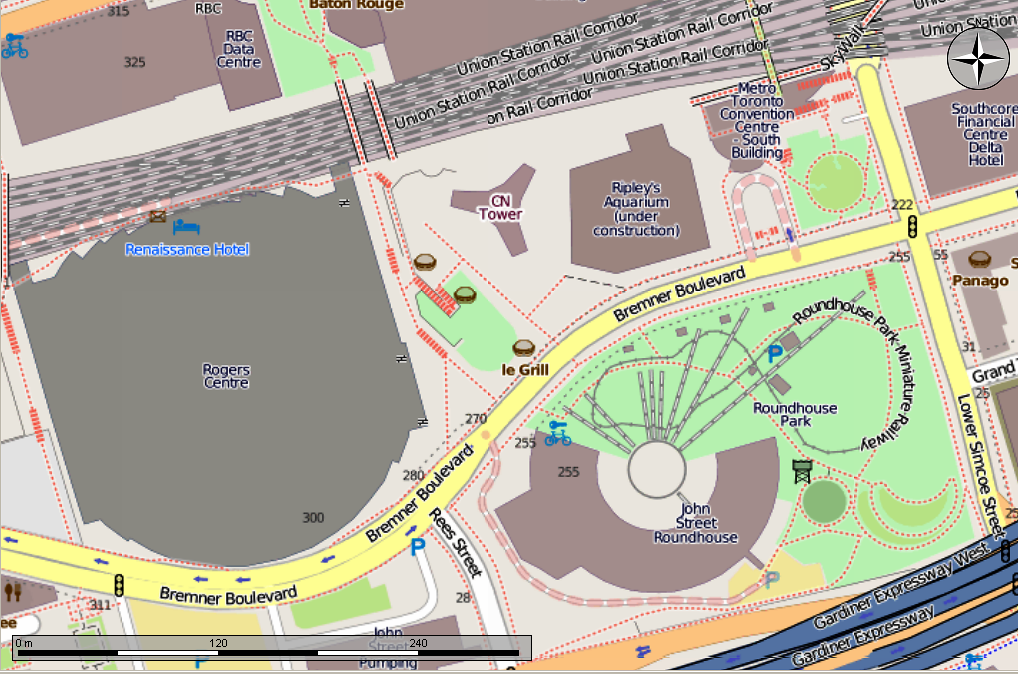 Open Street Map showing the location of the (under construction) Ripley's Aquarium in downtown Toronto. Made using Marble program and GIMP.